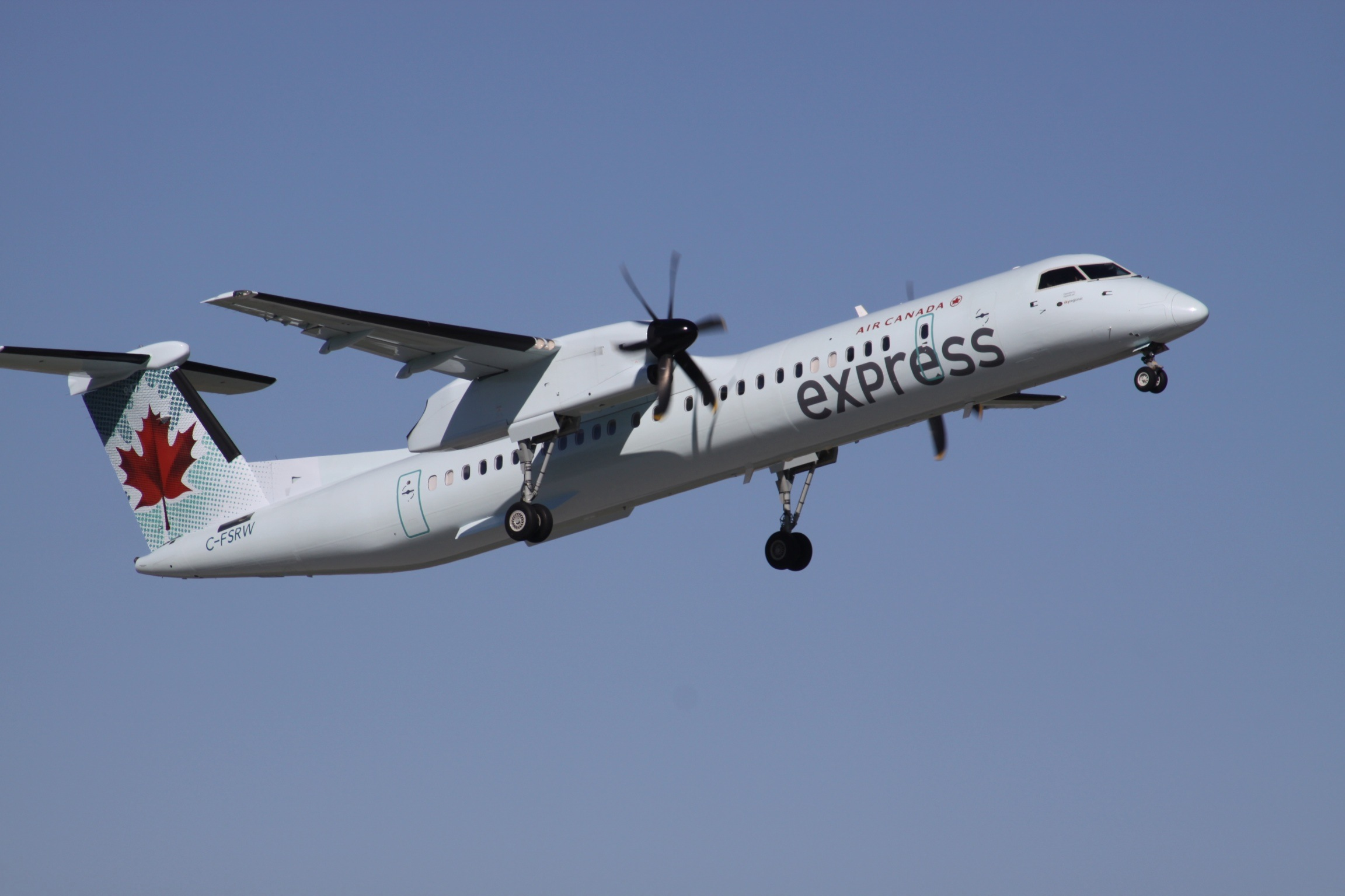 Bombardier DHC-8-400 of Air Canada Express. Registration C-FSRW. Take off at At Montréal-Pierre Elliott Trudeau International Airport. Other photographs in this sequence : File:C-FSRW Dash DH.8-400 Air Canada Express (7637317886).jpg File:C-FSRW Dash DH.8-400 Air Canada Express (7637319228).jpg File:C-FSRW Dash DH.8-400 Air Canada Express (7637320362).jpg